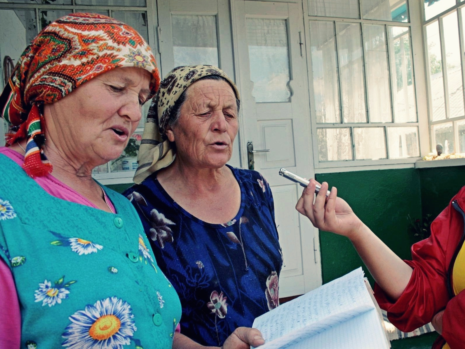 Singing grannies